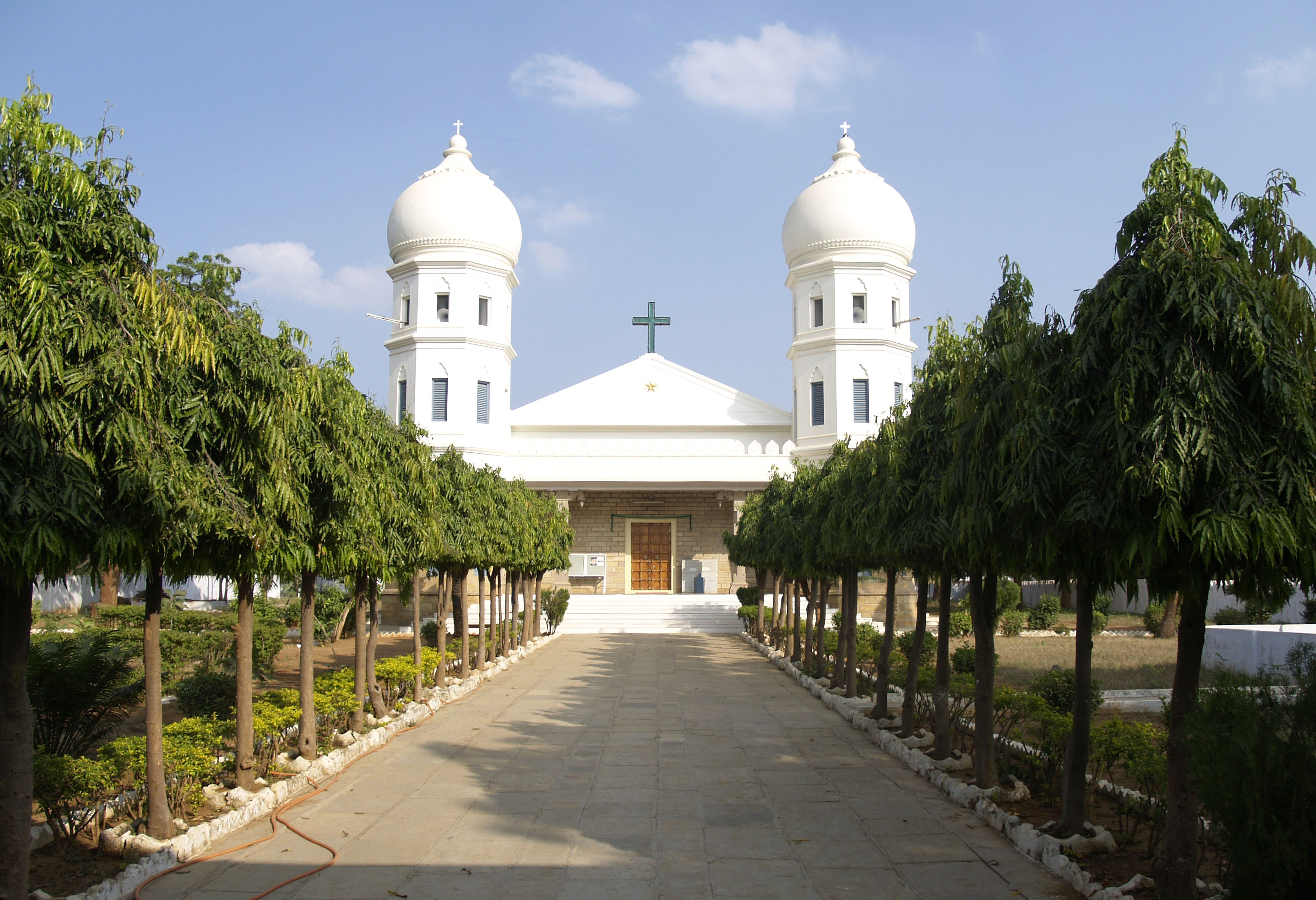 Ephiphany Cathedral Dornakal Diocese, Dornakal, Andhra Pradesh, India